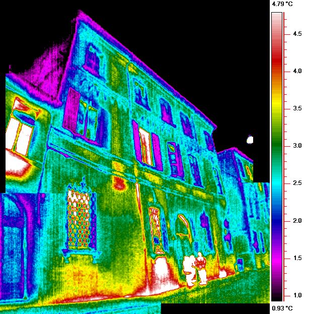 Thermal infrared image of Manzoni palace in Forlì